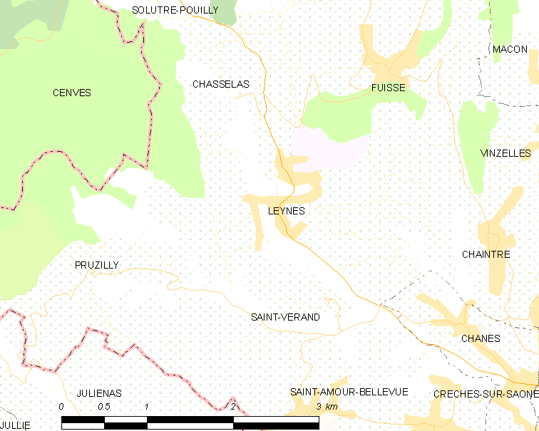 Map of French municipality